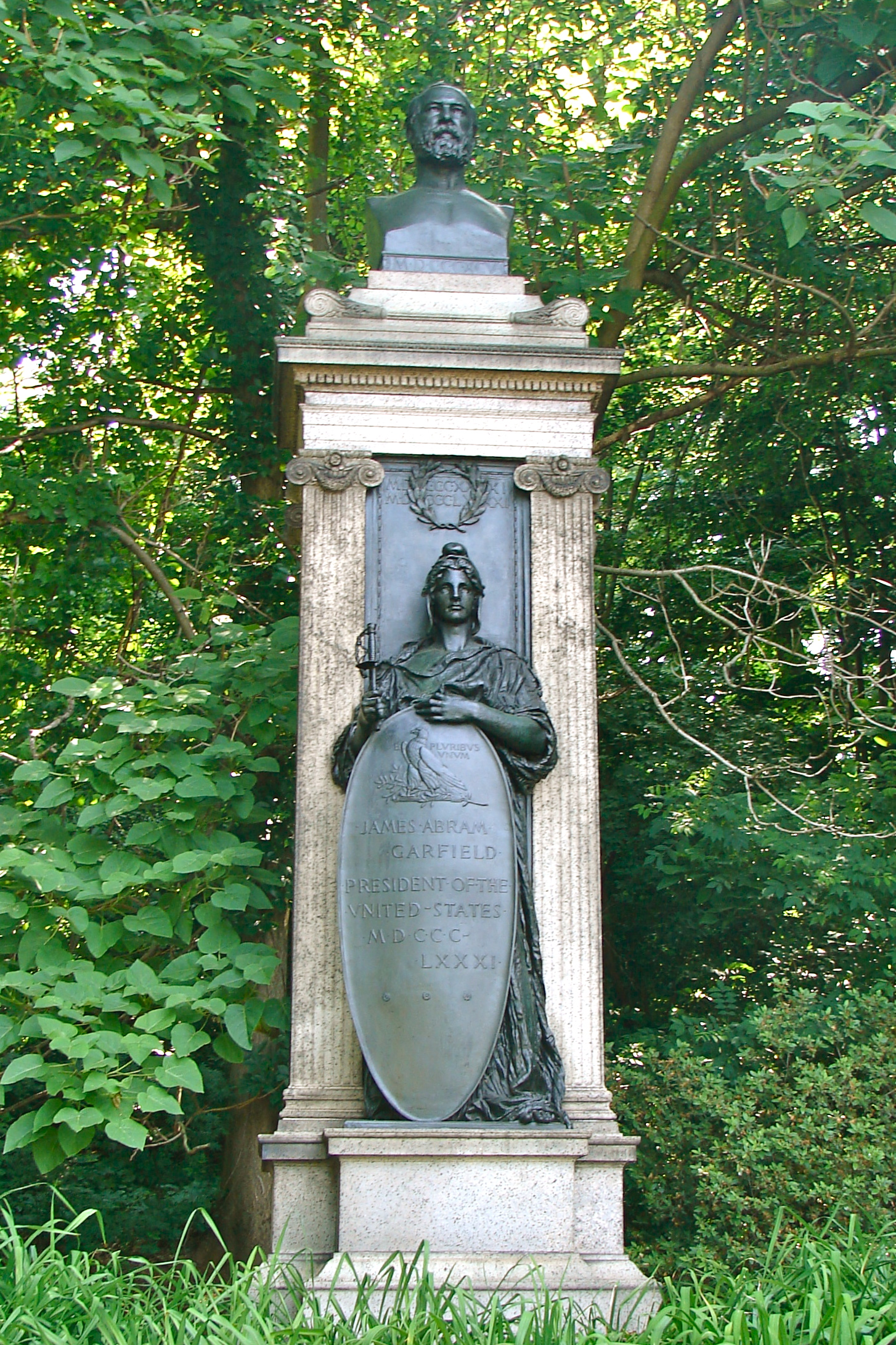 By Augustus Saint-Gaudens, 1895 in Fairmount Park Philadelphia. Female statue represents America. Bust on top is the assassinated president.